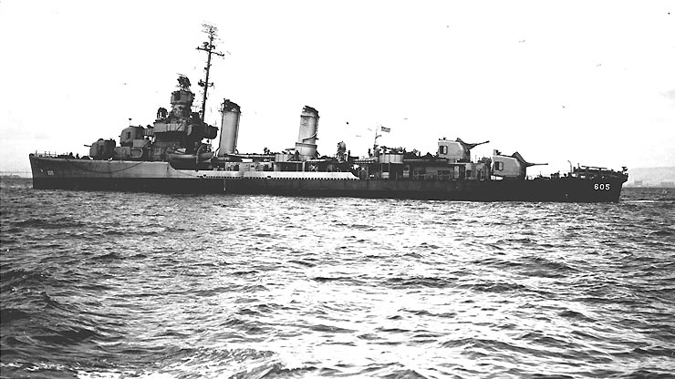 The U.S. Navy destroyer USS Caldwell (DD-605) off San Francisco, California (USA), on 3 March 1945.